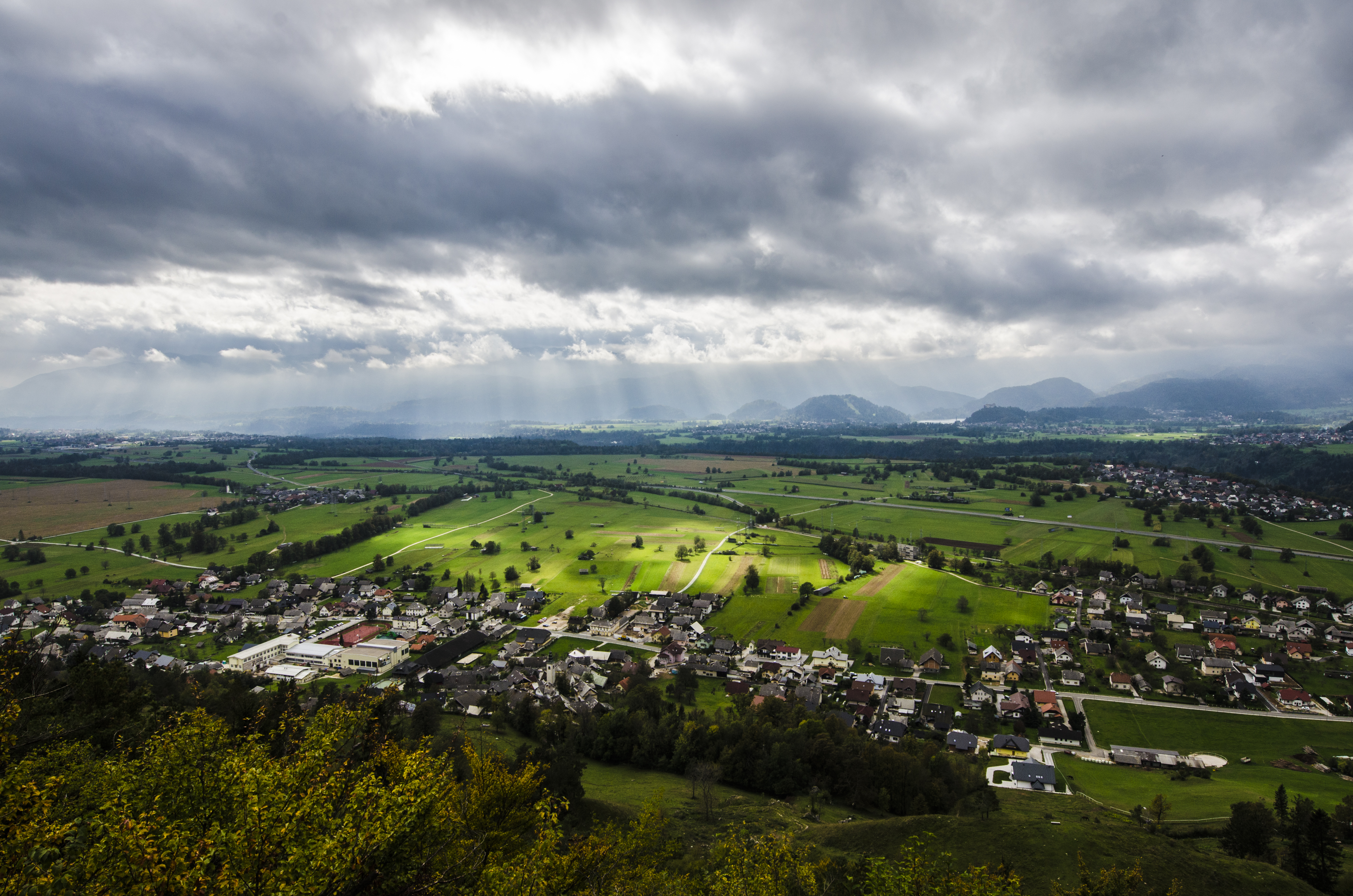 Zabreznica, Žirovnica.